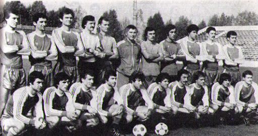 FC Bihor squad 1981-1982 Divizia B season.